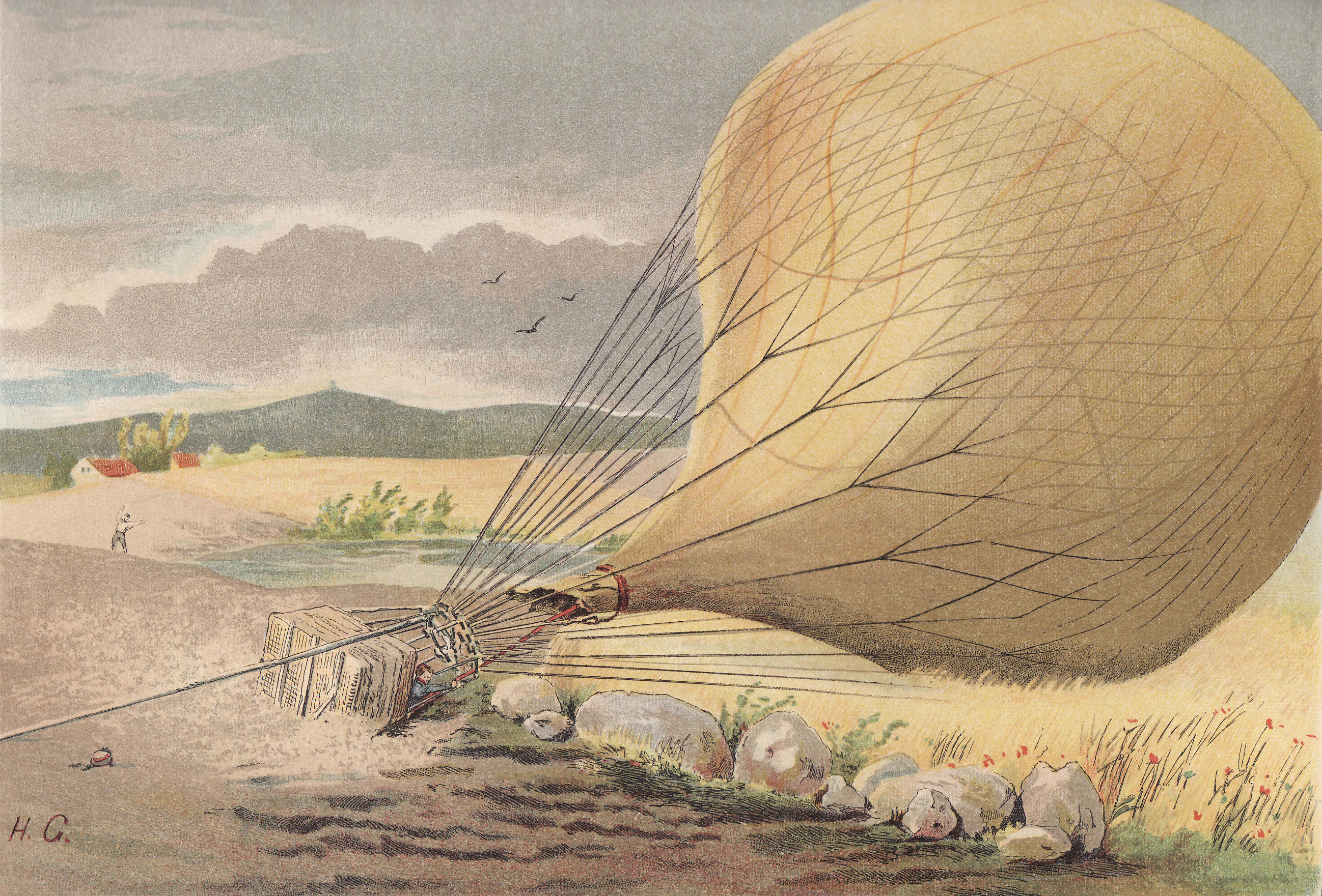 Touchdown of Balloon Phoenix with Hans Groß pulling the ripcord on July 25, 1893. Drawing of Hans Groß